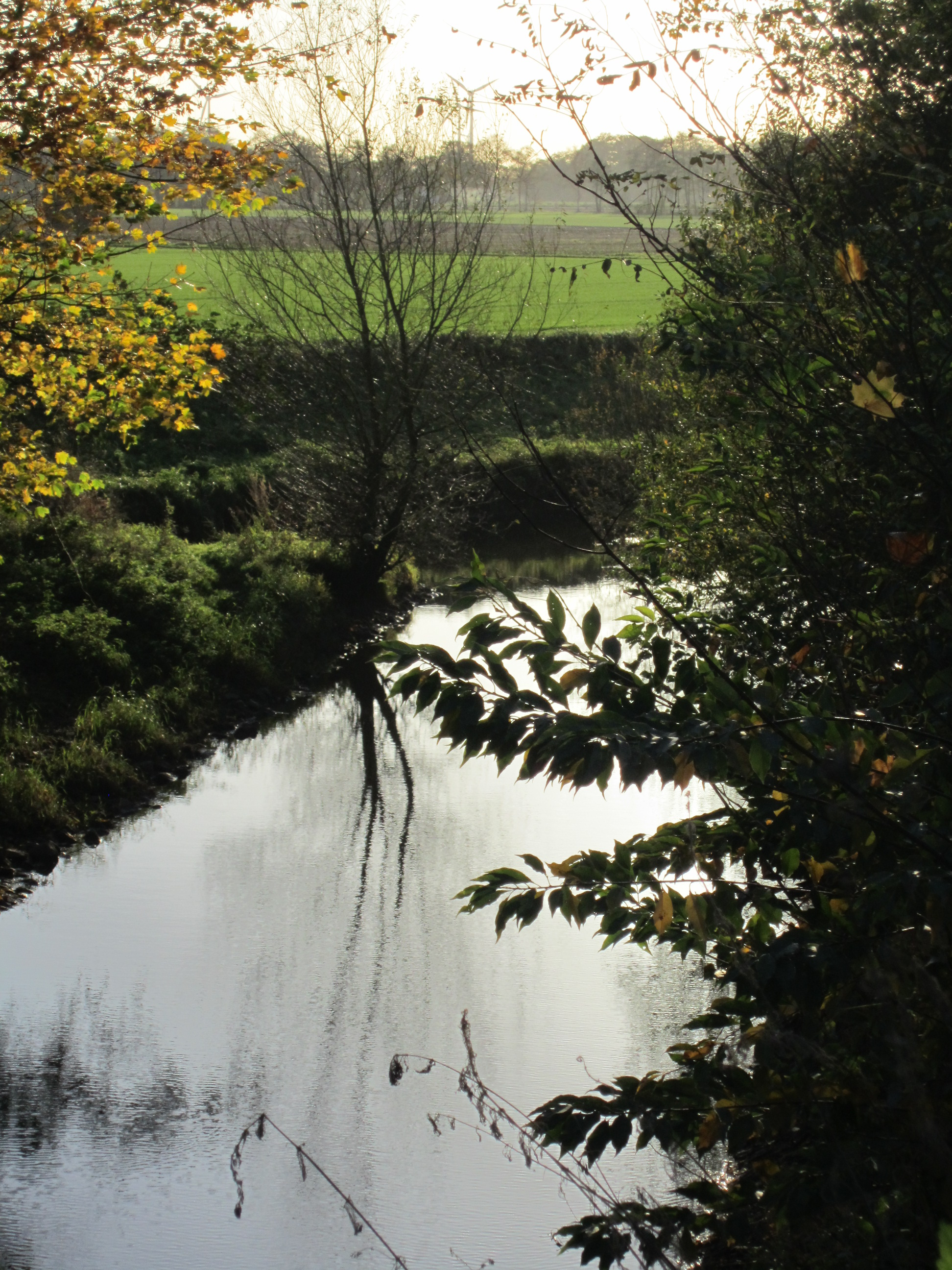 Connection between the former rentention pond "Lüscher Polder" and the "Fladderkanal"